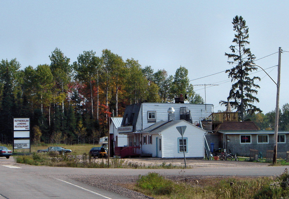 Rutherglen hamlet, part of Bonfield Township, Ontario